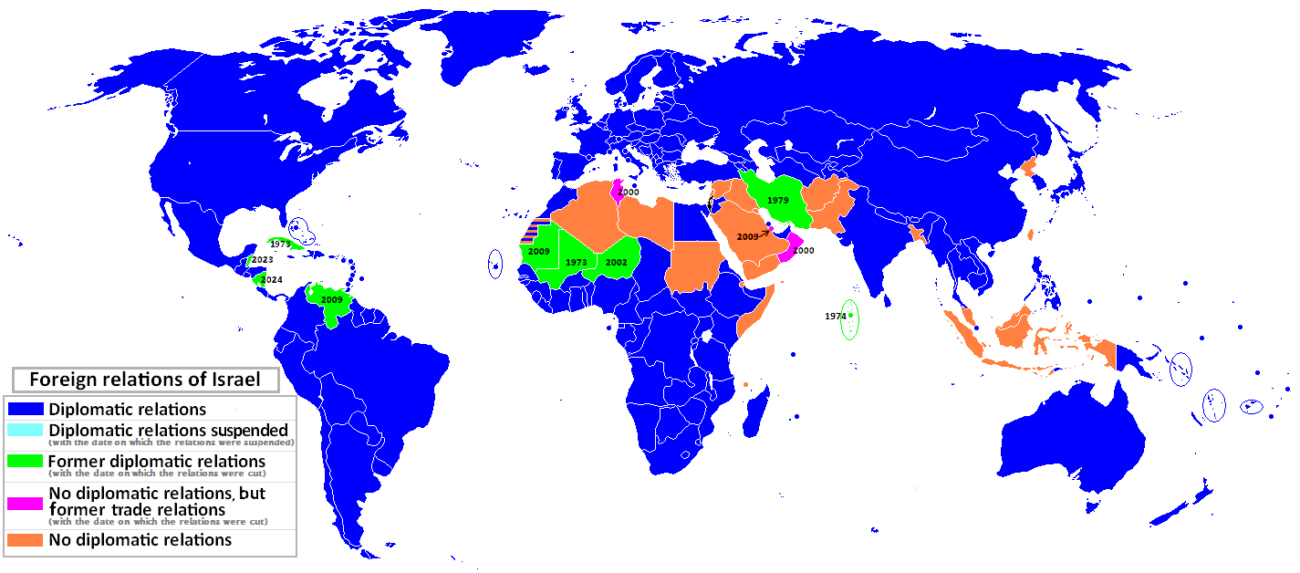 Map of the World showing status of diplomatic relations with Israel, updated to August 2020.